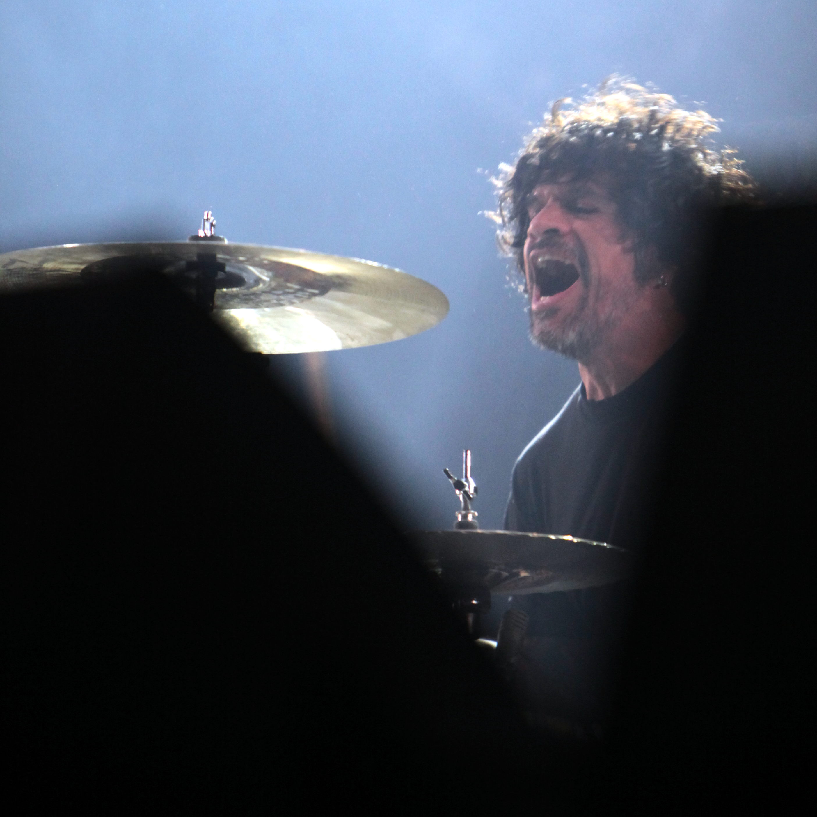 Joey Castillo with Queens of the Stone Age at the Eurockéennes de Belfort 2011 The making of this document was supported by Wikimedia CH. (Submit your project!) For all the files concerned, please see the category Supported by Wikimedia CH.